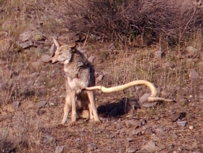 Quail Springs, Carrizo Plain National Monument, slo co, ca. The coyote would quickly bite the diamondback rattlesnake, then jump back out of harms way. In this pic, the coyote shook the snake, then dropped it ... it is not being struck. The coyote won and dragged the snake off to its den (?) in the last of the four pics. The photo quality is pretty bad ... at 100+ yards thru my Swarovski scope.